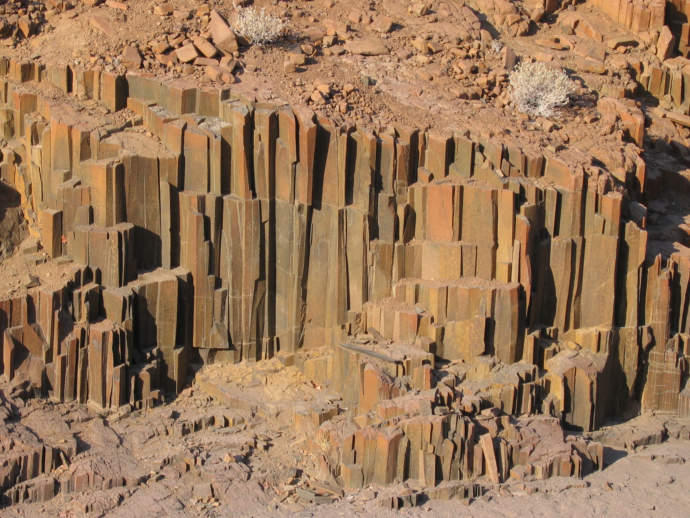 Organ pipes, Damaraland, Namibia